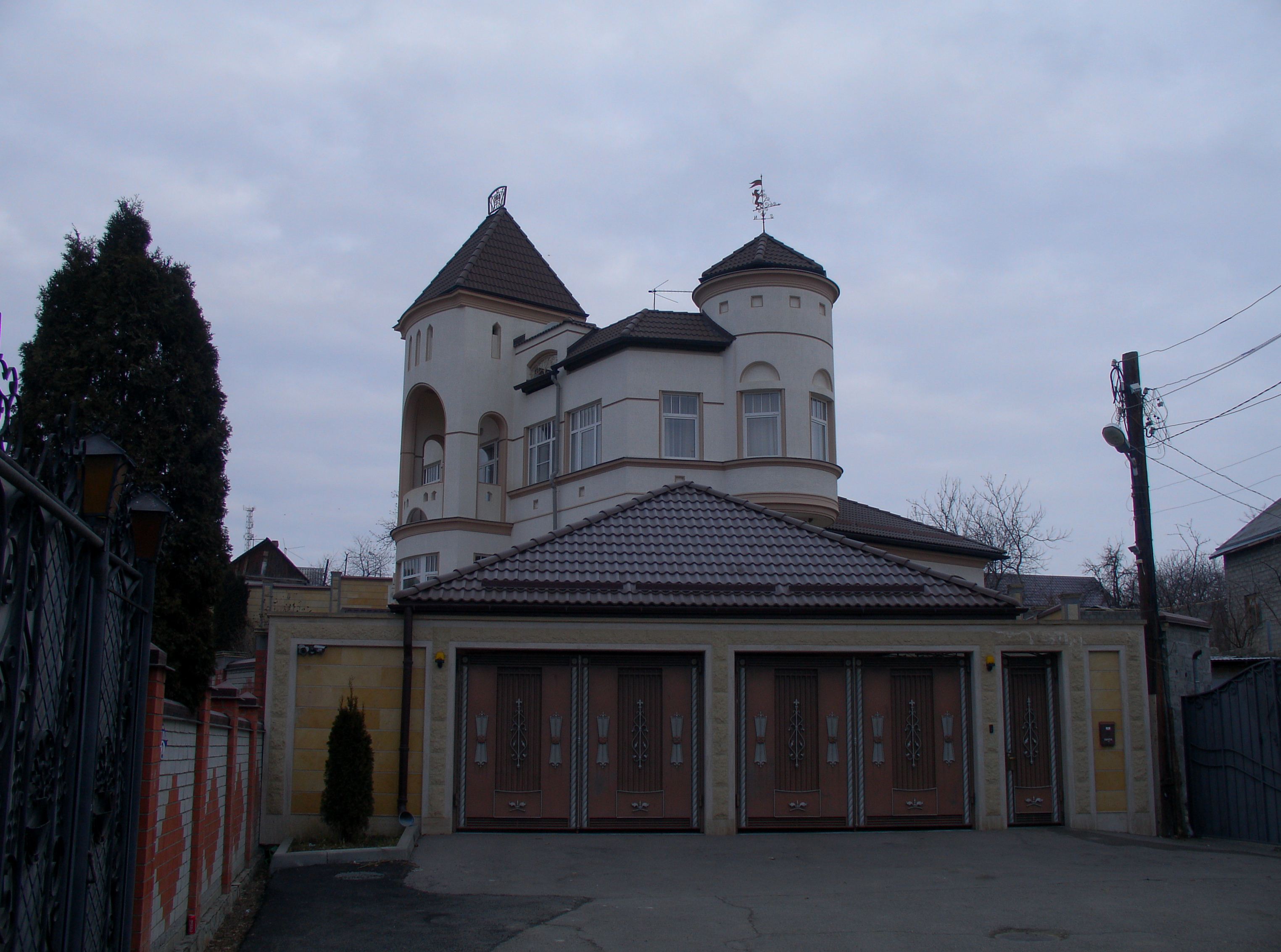 An ISKCON temple in Bely Ugol, Yessentuki, Stavropol Rrai, Russia